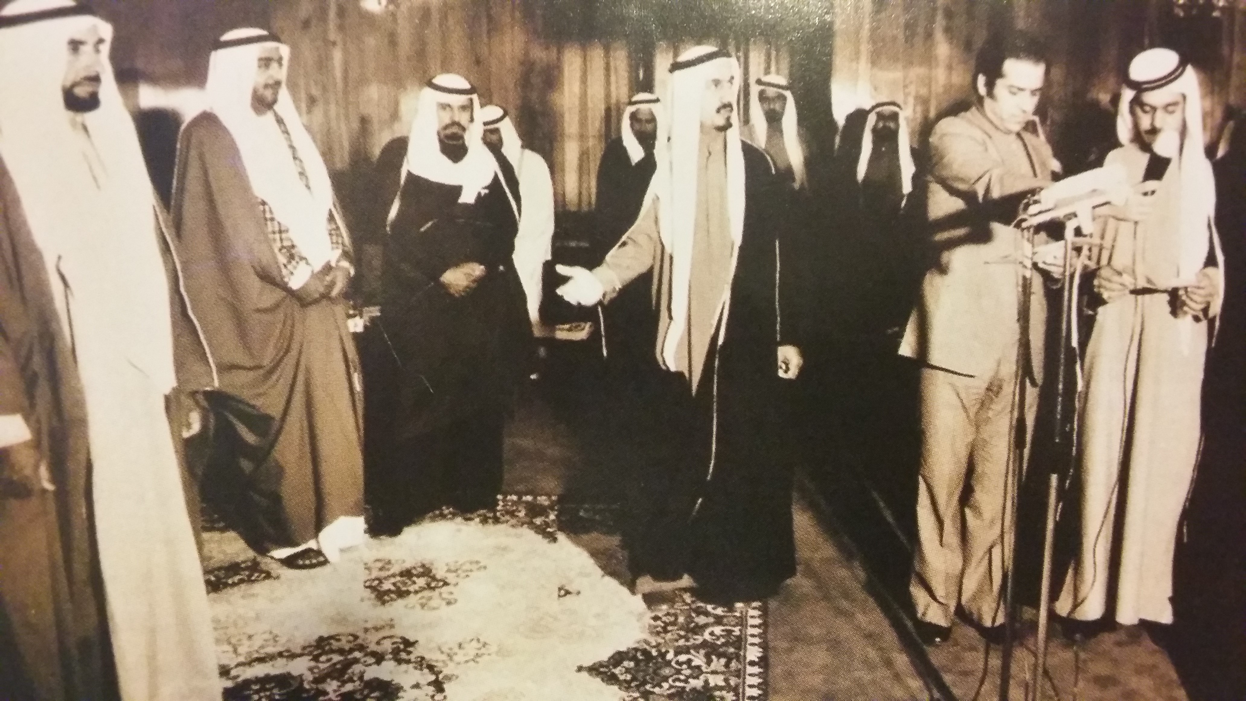 الشيخ زايد يتابع مبارك بن محمد ال نهيان وزير الداخيلة خلال أداء القسم بعد تشكيل أول حكومه.وفي الصورة الشيخ خليفه بن زايد ال نهيان وعلي الشرفاء والمرحوم سعيد سلطان الدرمكي وئيس دائرة التشريفات